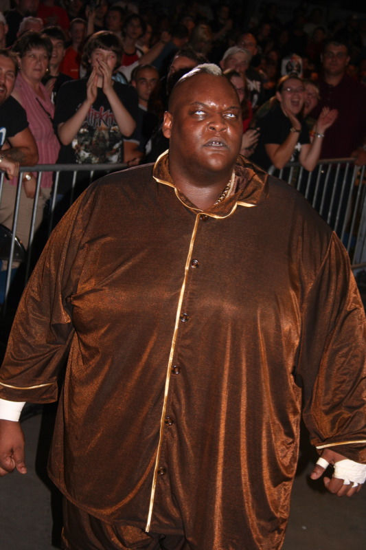 Nelson Frazier, Jr. (better known as Viscera) on a WWE house show held in Kitchener, Ontario, Canada on August 12, 2005.